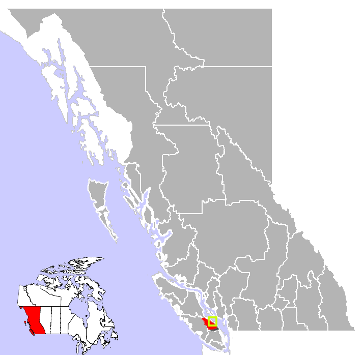 Parksville, British Columbia location.